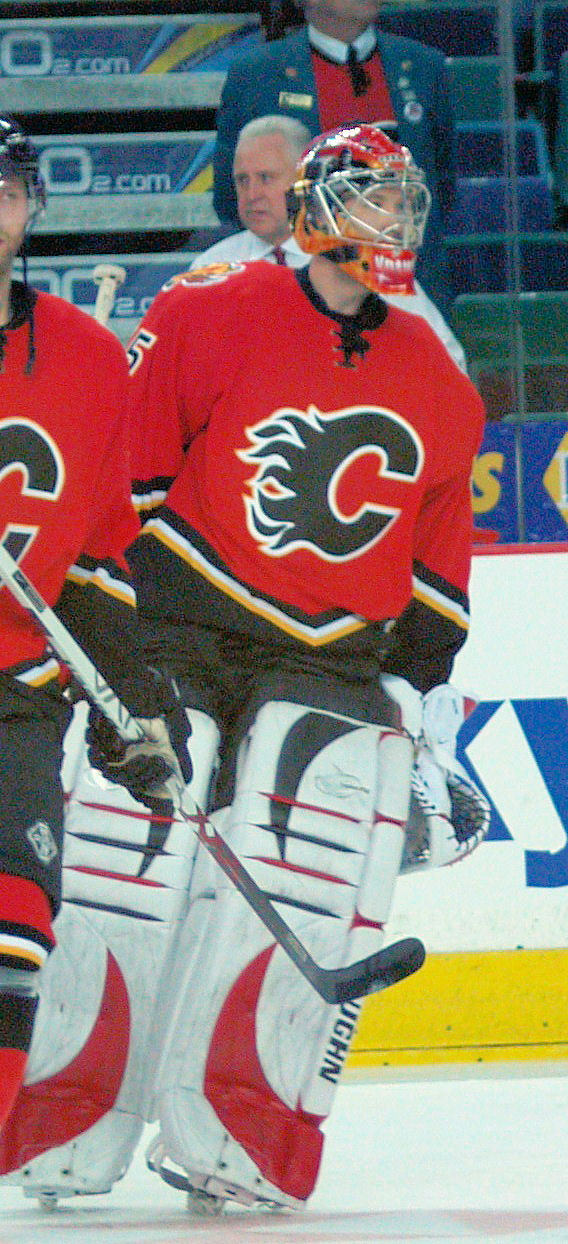 Brent Krahn of the Calgary Flames, in the pregame skate, dressed for his first NHL game.